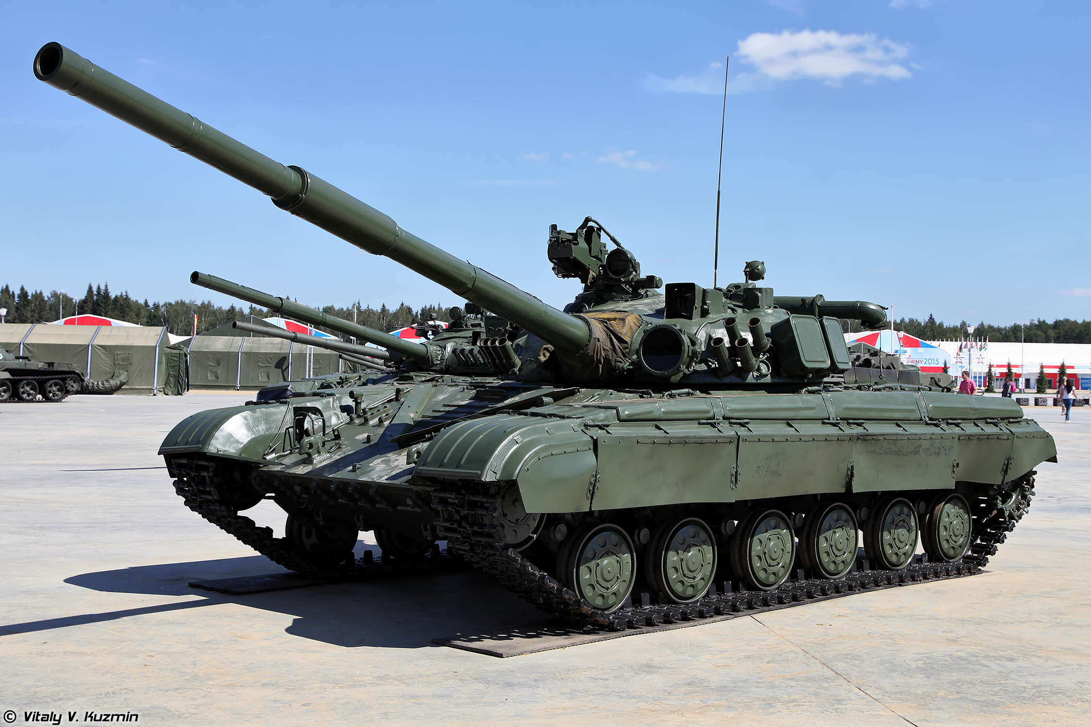 T-64B1